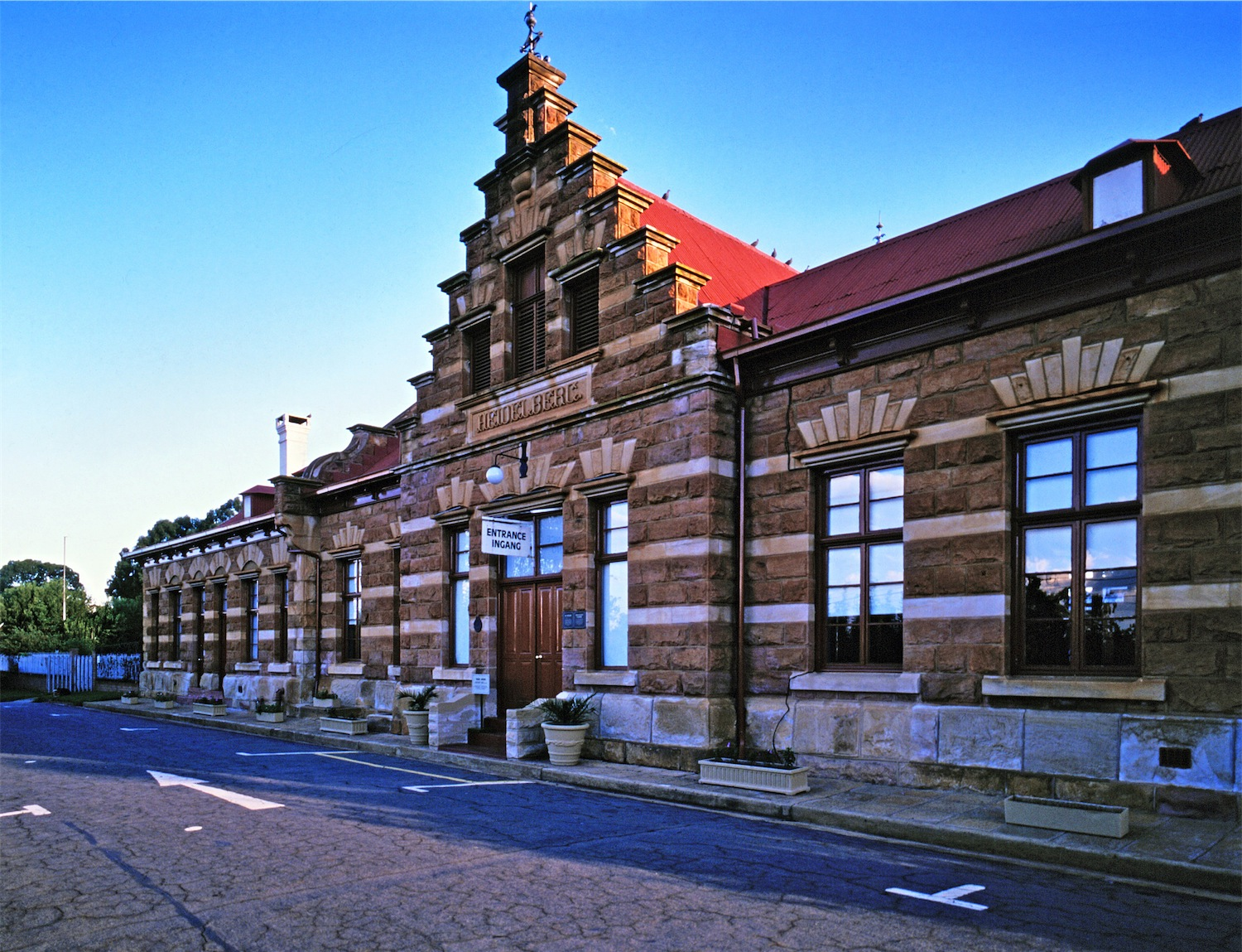 Former Heidelberg (South Africa) Railway Station built on behalf of NZASM in 1896. When the railway line through Heidelberg was rerouted in 1961, the station was closed and converted to a transport museum. Since this photo was taken the site was neglected for a number of years.